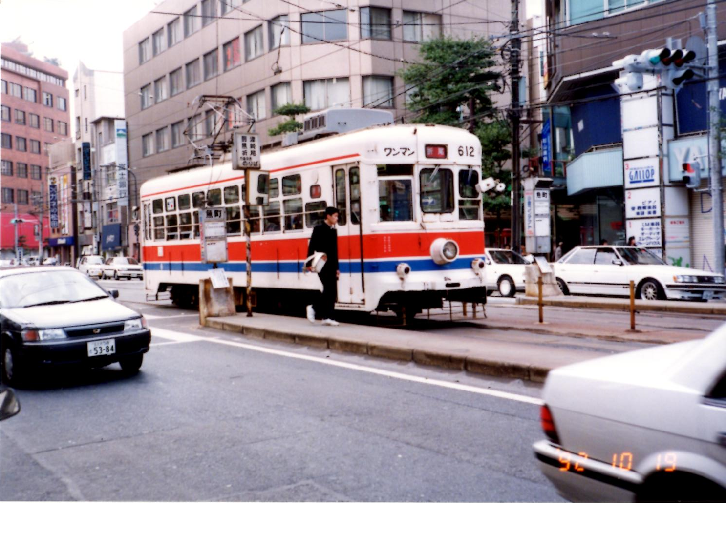 Uomachi tram stop of Nishitetsu Kitakyushu Line at Kitakyushu,Fukuoka,Japan.